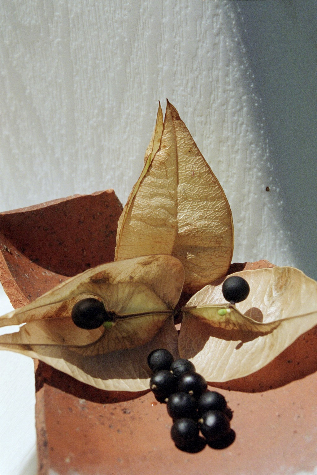 Seeds and pod of Koelreuteria paniculata in automn